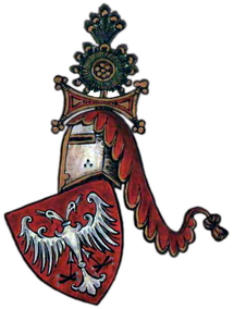 Modern reconstruction of the Nemanjić dynasty coat of arms, made by Aleksandar Palavestra (born 1956).